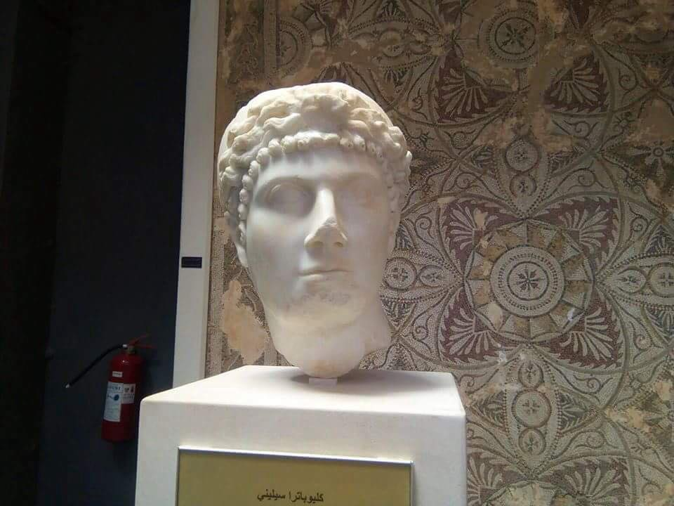 An ancient Roman bust of Cleopatra Selene II, daughter of Cleopatra VII Philopator of Egypt and Roman triumvir Mark Antony, as well as wife of Juba II of Mauretania (a Roman client ruler in North Africa); the bust is located in the Archaeological Museum of Cherchell, Algeria.